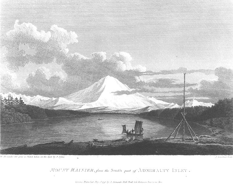 Klallam pole for netting ducks American Memory from the Library of Congress Clallam pole for netting ducks, in front of Mount Rainier, Washington, in engraving made 1792 ORIGINAL CREATOR Sykes, John, 1770 or 71-1858 NOTES Photograph of engraving of tall pole held upright by crossed poles, small boats in the inlet, and the mountain among clouds in the background. Caption on image: W. Alexander det: from a sketch taken on the spot by J. Sykes. Mount Rainier, from the south part of Admiralty Inlet. London, published May 1st, 1798 by R. Edwards, New Bond Street, J. Edwards, Pall Mall, & G Robinson, Paternoster Row. Note from unidentified source: Pole, one of a pair for holding duck net SUBJECTS Engravings Clallam Indians--Structures Clallam Indians--Subsistence activities Hunting Hunting & fishing gear Rainier, Mount (Wash.) Admiralty Inlet (Wash.) United States--Washington (State)--Admiralty Inlet Photographs REPRODUCTION NUMBER NA3985 REPOSITORY University of Washington Libraries DIGITAL ID